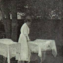 Image of Providence District Nurses Association Day Camp for Sick Babies to treat summer diarrhea.